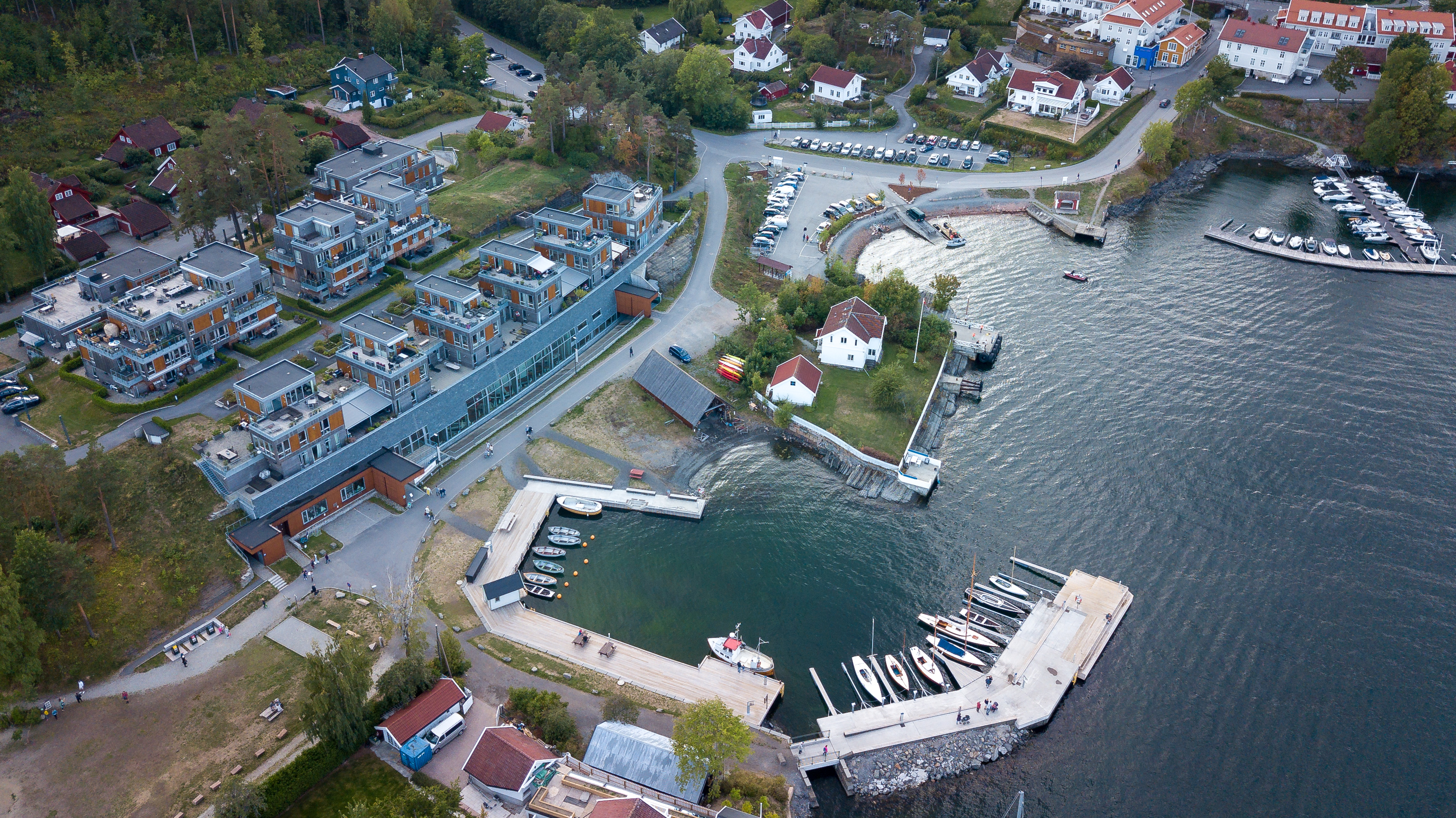 Aerial photograph of Vollen in Asker.